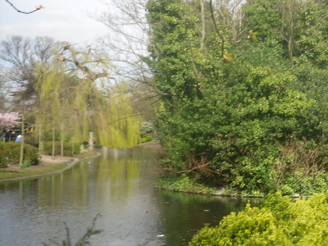 Lake in Ravenscourt Park - view from the south